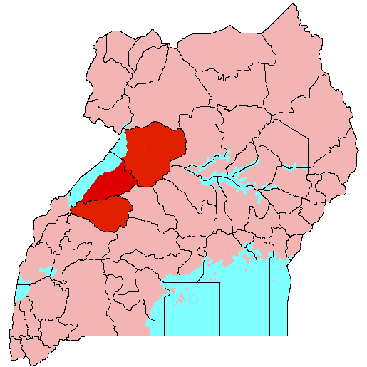 Ugandan kingdom of Bunyoro-Kitara and its districts